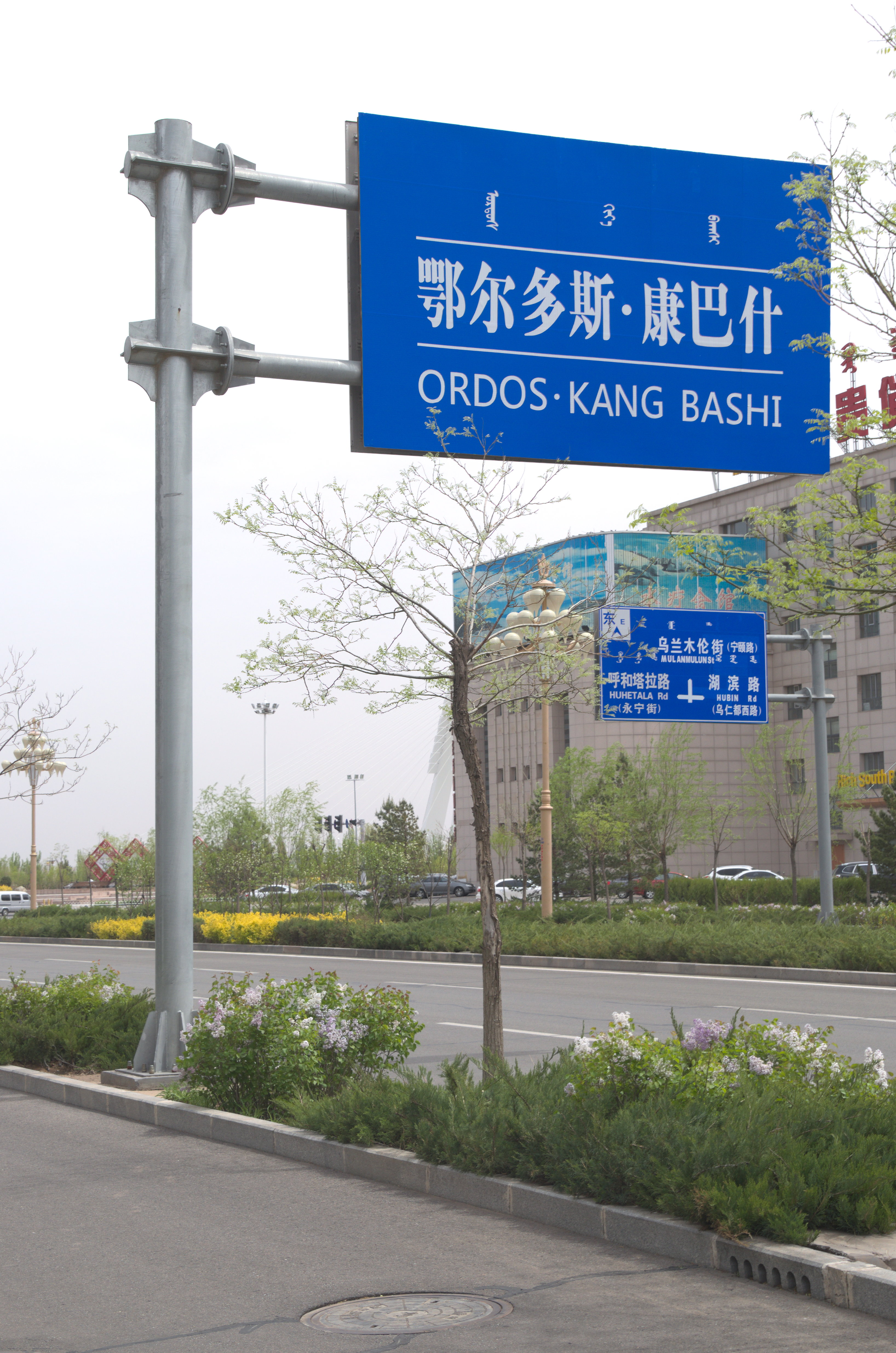 Sign in Mongolian traditional alphabet, chinese hanzi and english indicating new Kang Bashi district in Ordos City in Inner Mongolia, China.